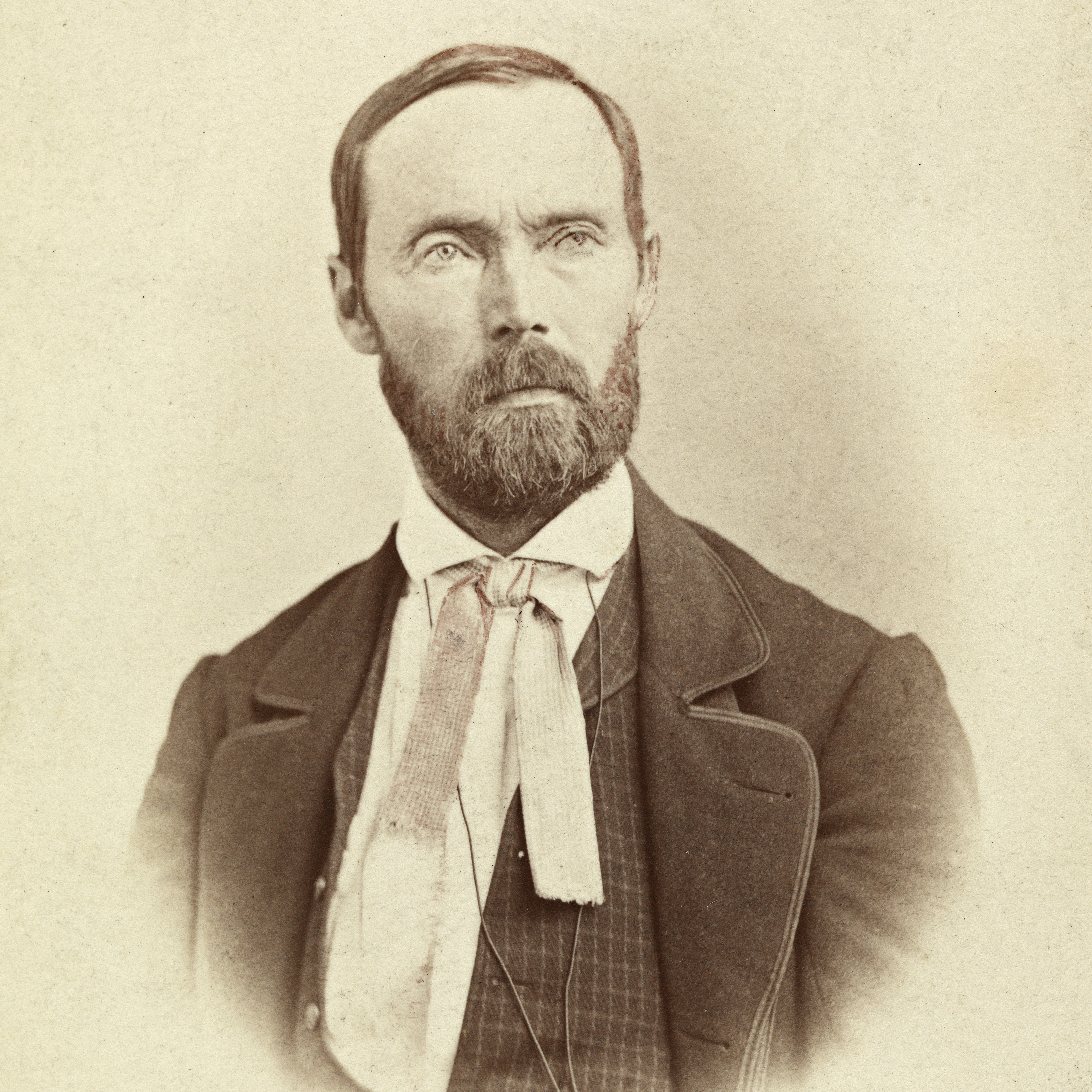 Dato / Date: ukjent / unknown Fotograf / Photographer: ukjent / unknown Digital kopi av original / Digital copy of original: sv/hv papirpositiv, visittkortportrett Eier / Owner Institution: Nasjonalbiblioteket / National Library of Norway Lenke / Link: Bildesignatur / Image Number: blds_09518